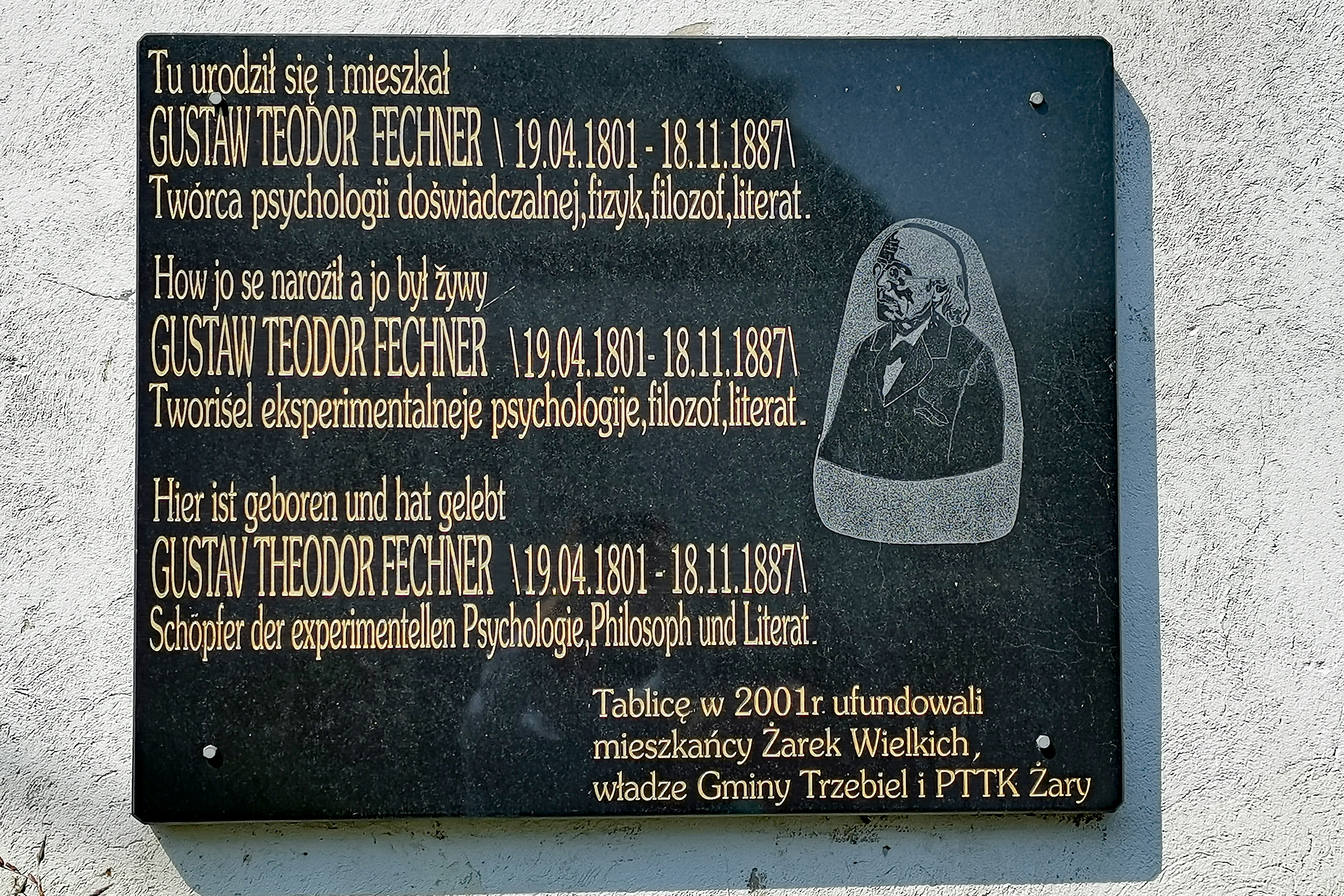 Zarki Wielkie (Poland)